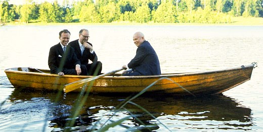 First Secretary of the Communist Party of the Soviet Union Nikita Khrushchev, Swedish Prime Minister Tage Erlander and an interpreter in the rowing boat at Harpsund.